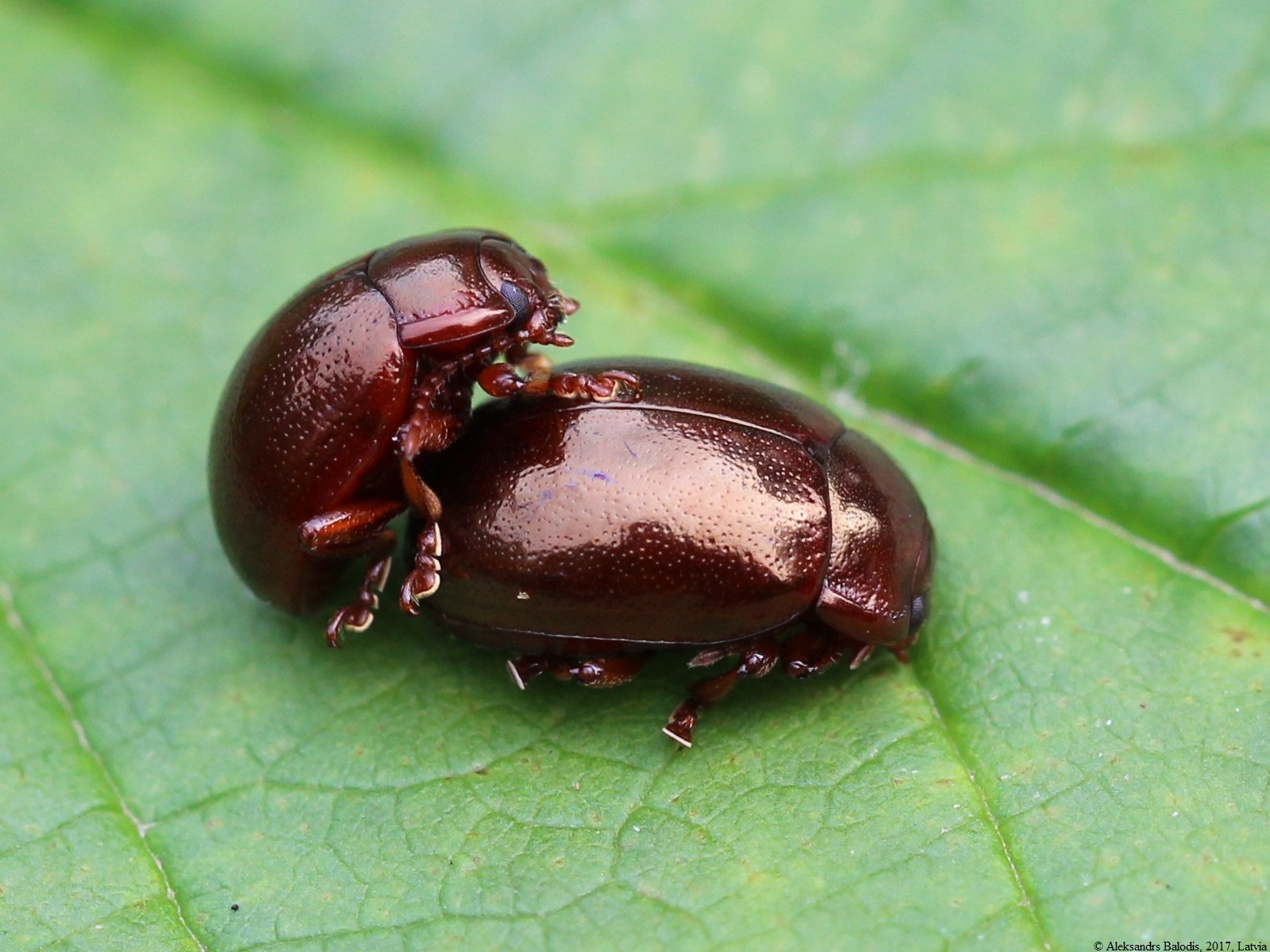 Chrysolina staphylaea